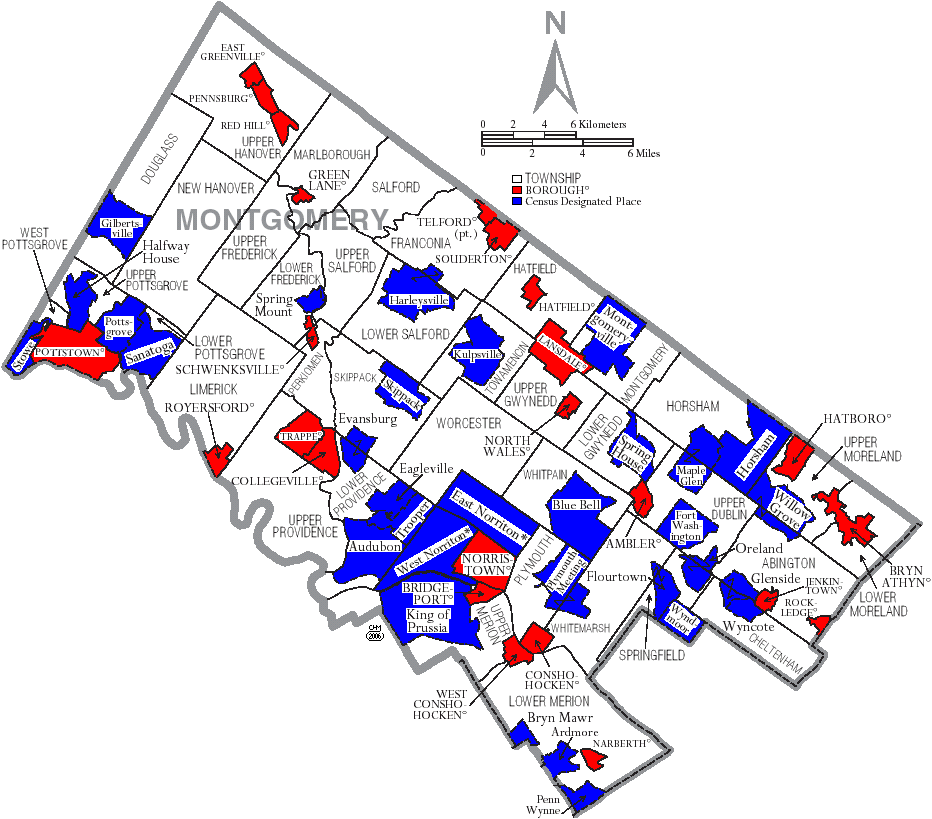 Map of Montgomery County, Pennsylvania, United States with township and municipal boundaries